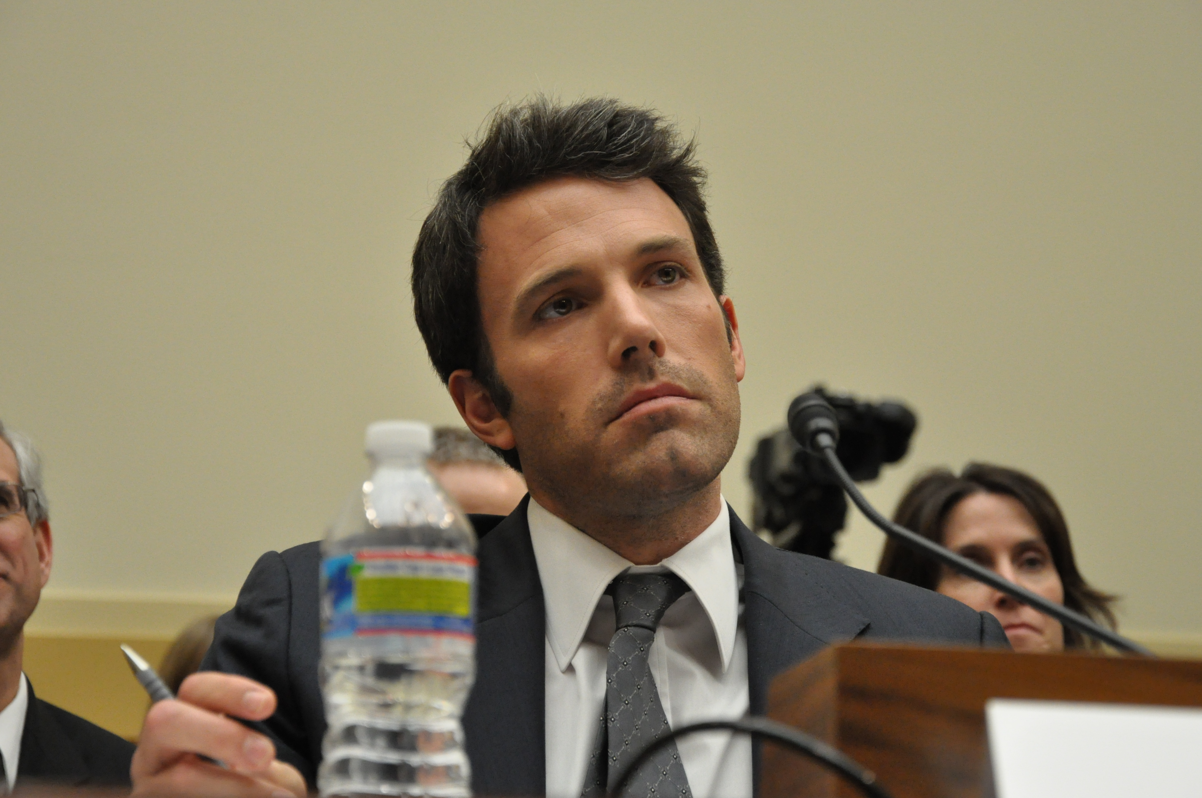 Ben Affleck testifying to Congress on the Democratic Republic of Congo. (Amanda Bossard/ Medill News Service)